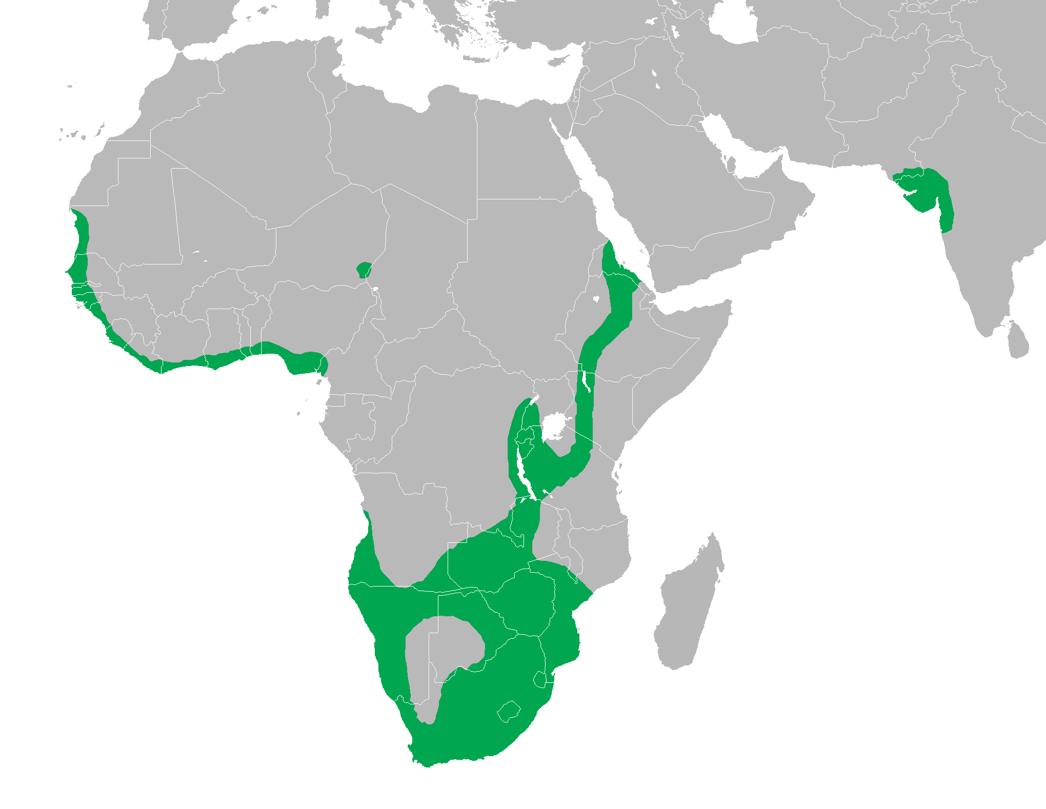 Lesser Flamingo (Phoeniconaias minor) distribution map